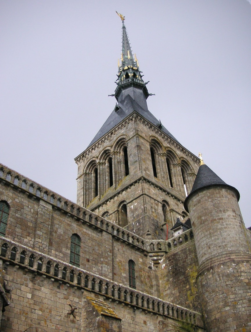 France, Mont Saint-Michel, the tower of the Abbey Church